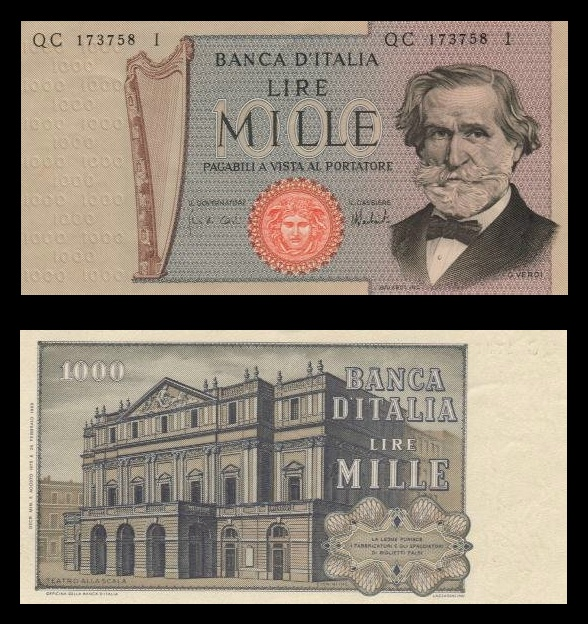 Italian ₤ 1000 banknote (1969–1981) representing Giuseppe Verdi.